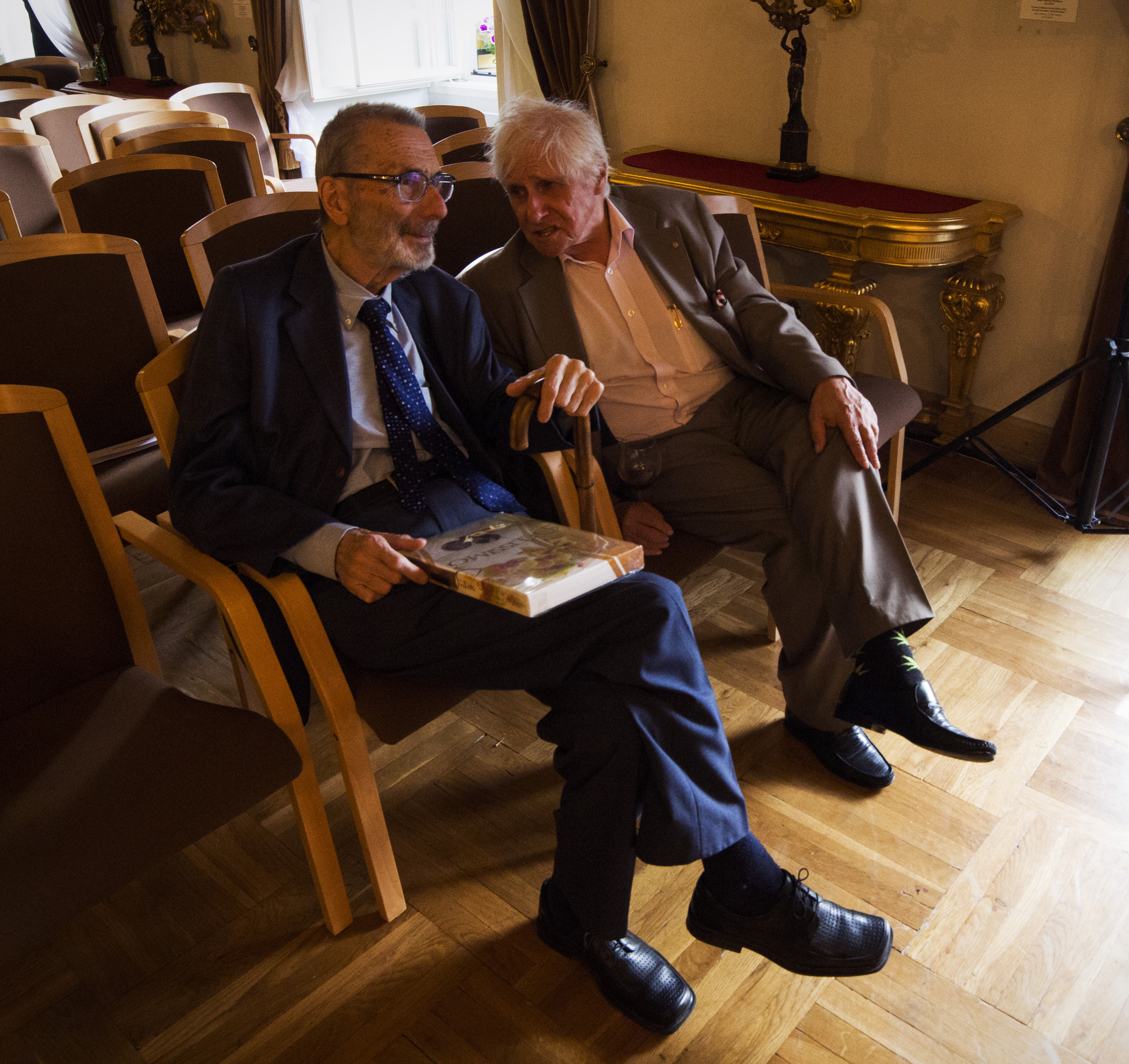 Włodzimierz Ptak (immunologist) and Jerzy Vetulani (neuroscientist), members of the Polish Academy of Sciences during conversation; hall of the Krzysztofory Palace, Cracow.